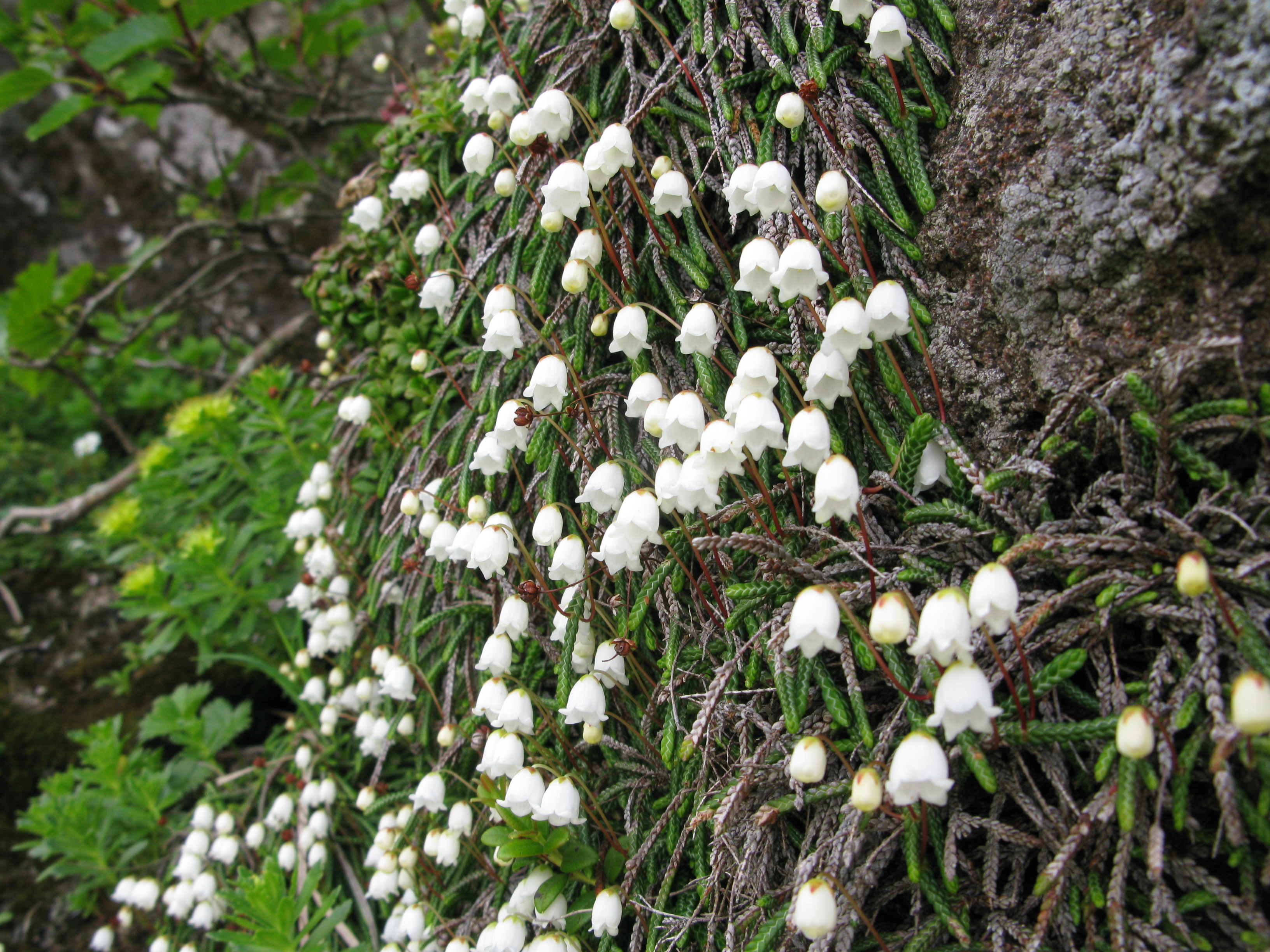 Cassiope lycopodioides, Mount Chōkai, Yamagata pref., Japan